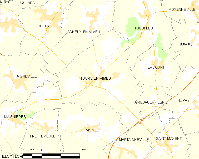 Map of French municipality Tours-en-Vimeu